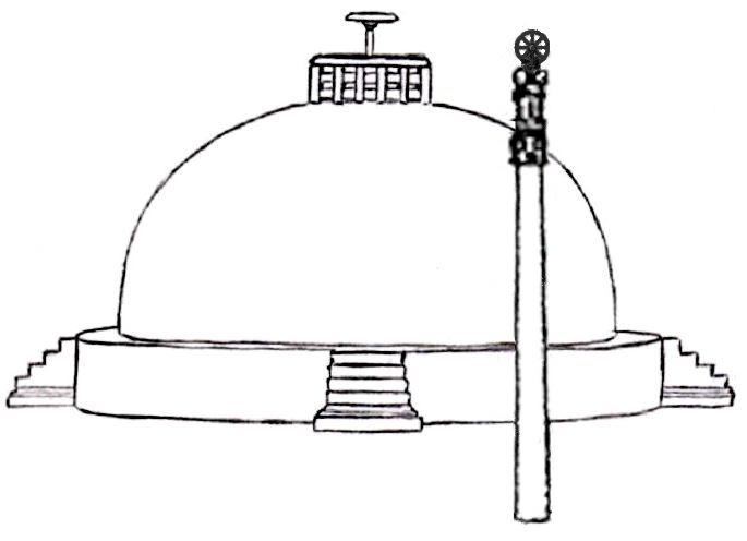 Sanchi Great Stupa Mauryan configuration